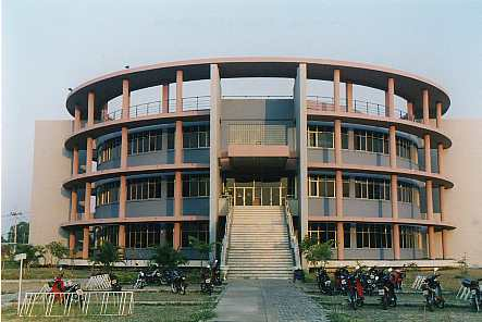 photo of library at UBU, Ubon, Thailand